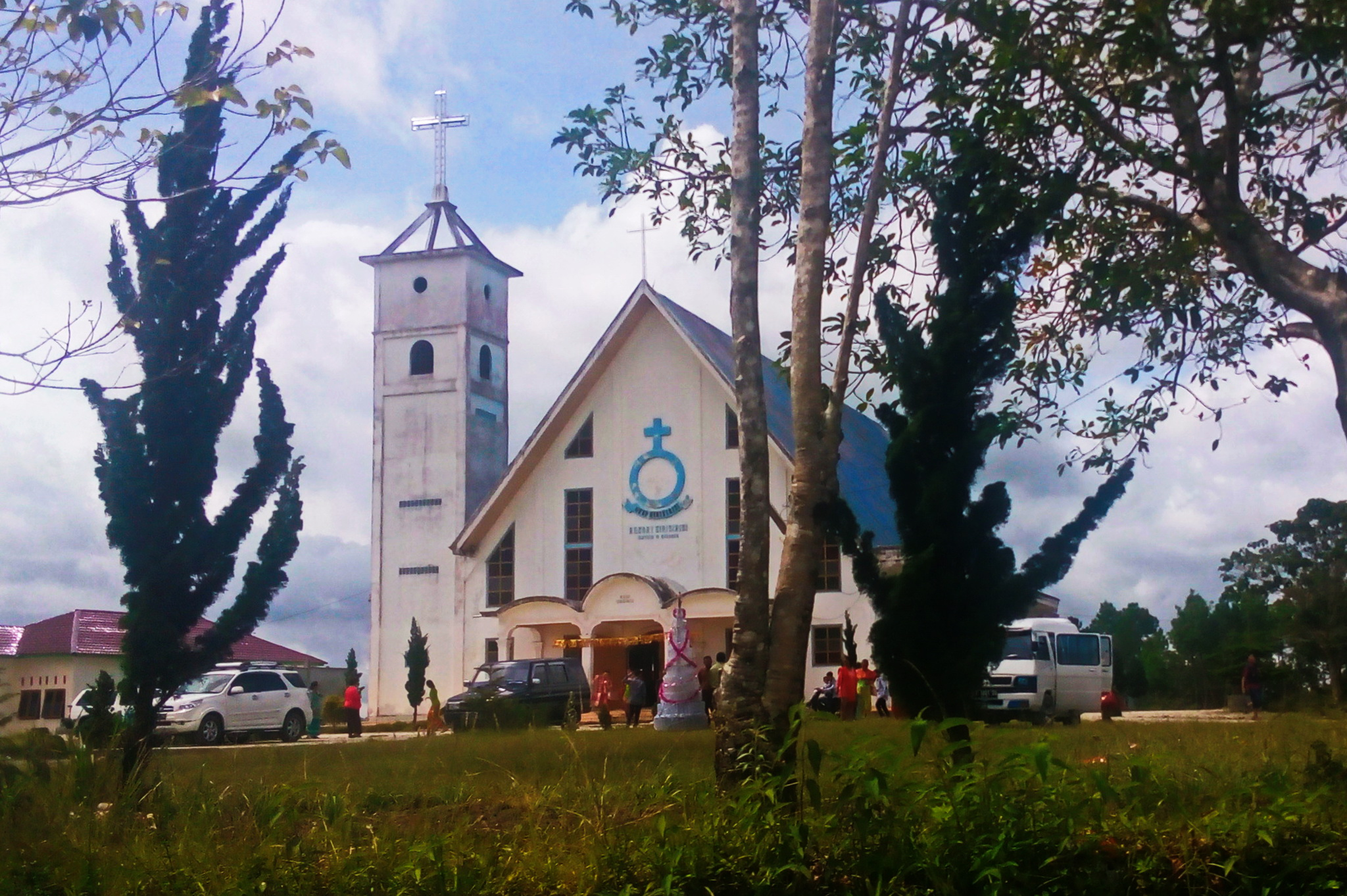 HKBP Sirisirisi, Church in Sirisirisi, Doloksanggul, Humbang Hasundutan